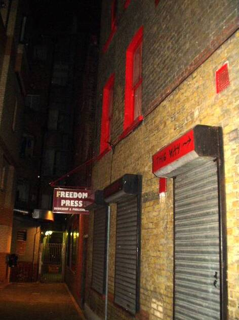 By Rob Ray (2004) Outside of the Freedom Press building at night. Shutters are permanently closed after a firebombing by fascist group Combat 18.